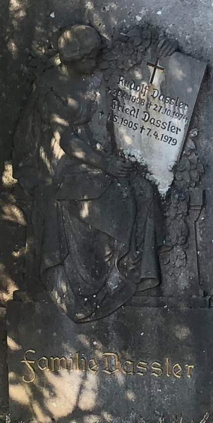 Tombstone of Rudolf Dassler, showing his real birthdate, 29th of April 1898